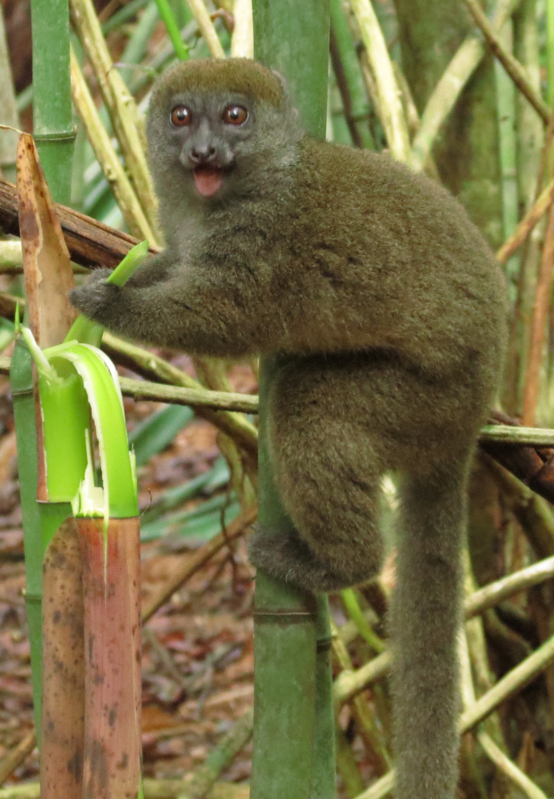 Northern bamboo lemur (Hapalemur occidentalis) in Antanetiambo Nature Reserve in northwestern Madagascar